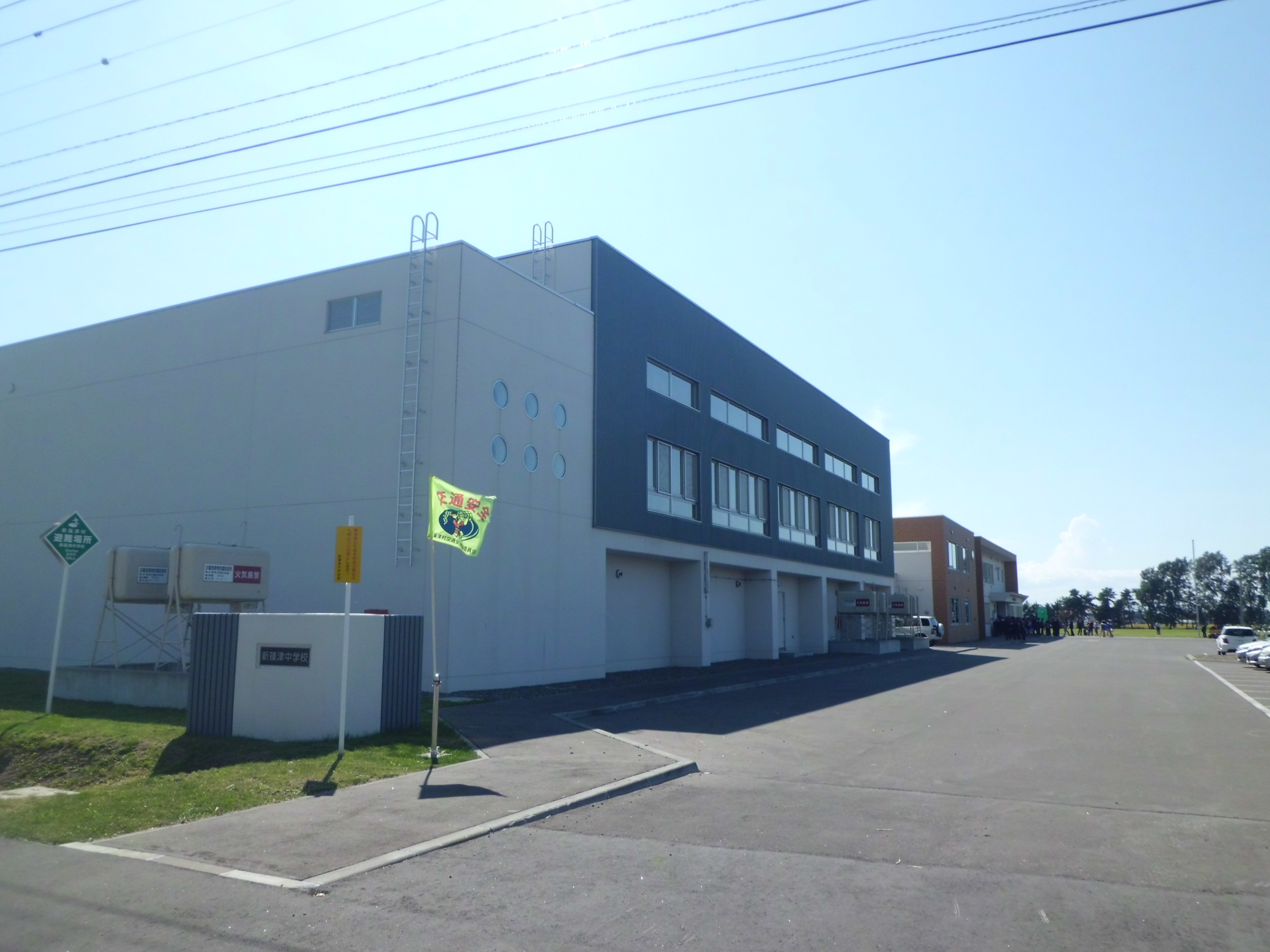 Shinshinotsu Village Shinshinotsu Junior High School